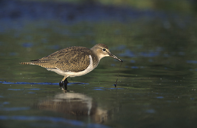 Actitis hypoleucos